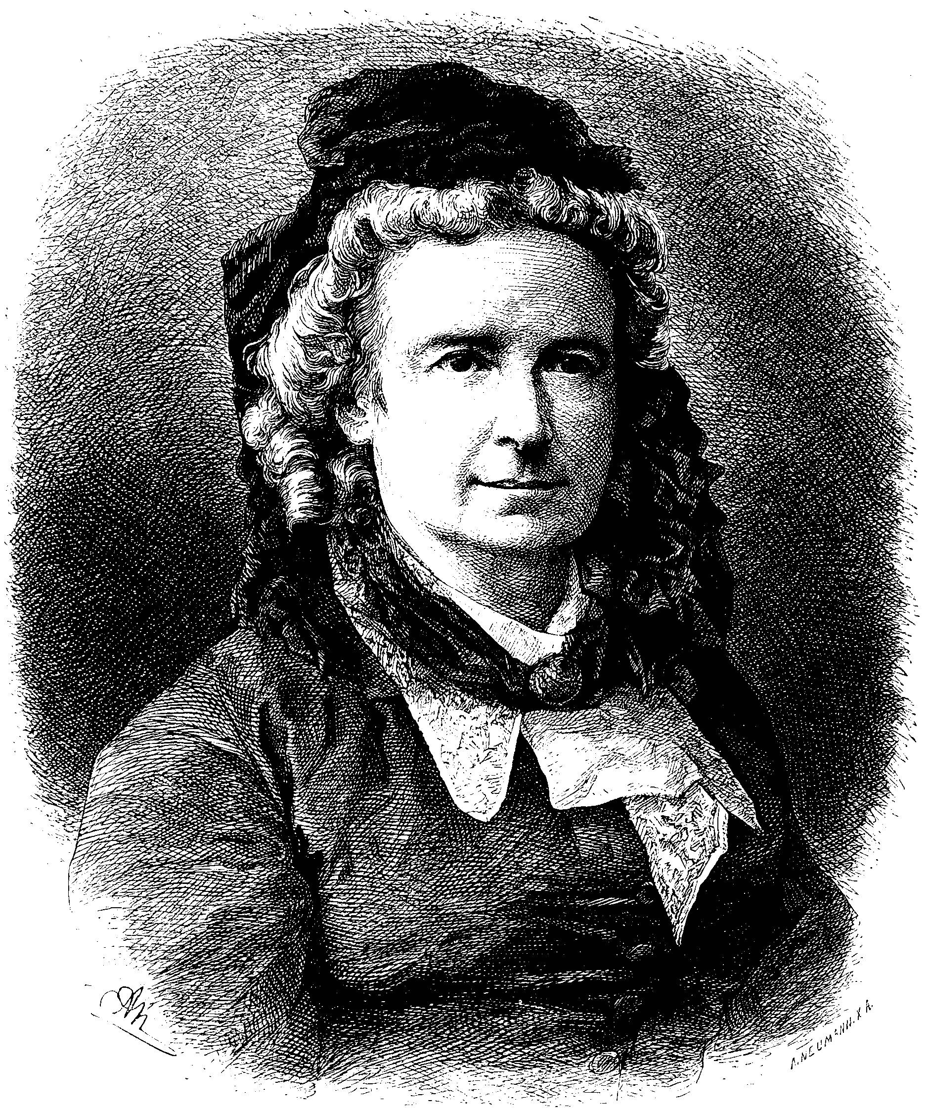 no caption